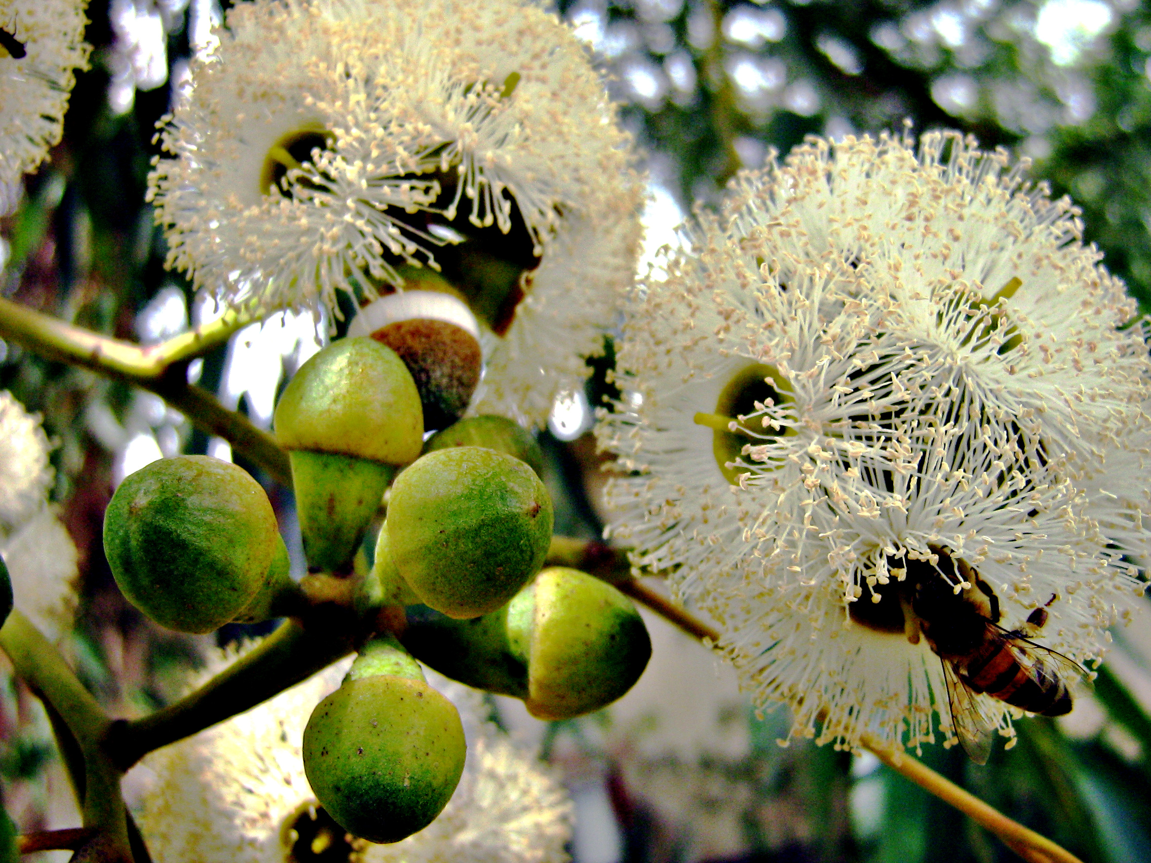 Eucalyptus blossoms and leaves, an introduced plant in Libya.